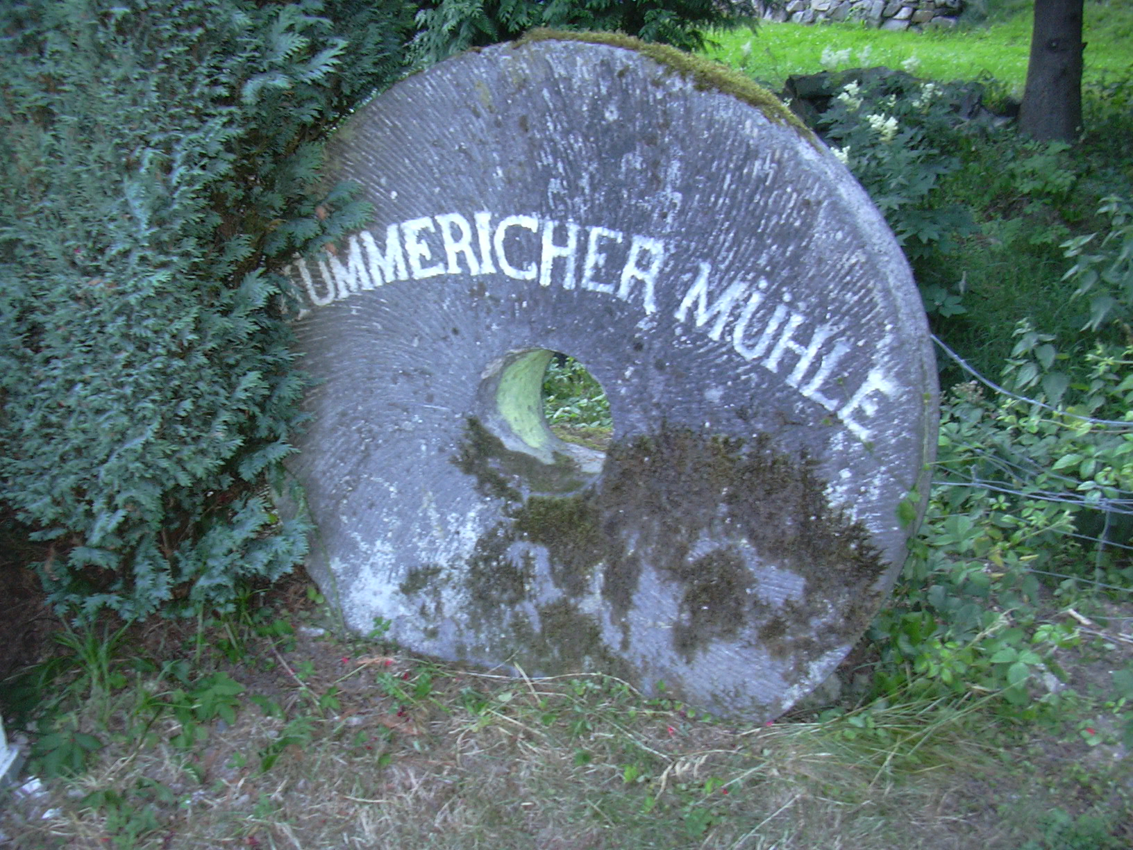 Millstone of Hümmerichmühle, Niederbreitbach, Westerwald/Germany